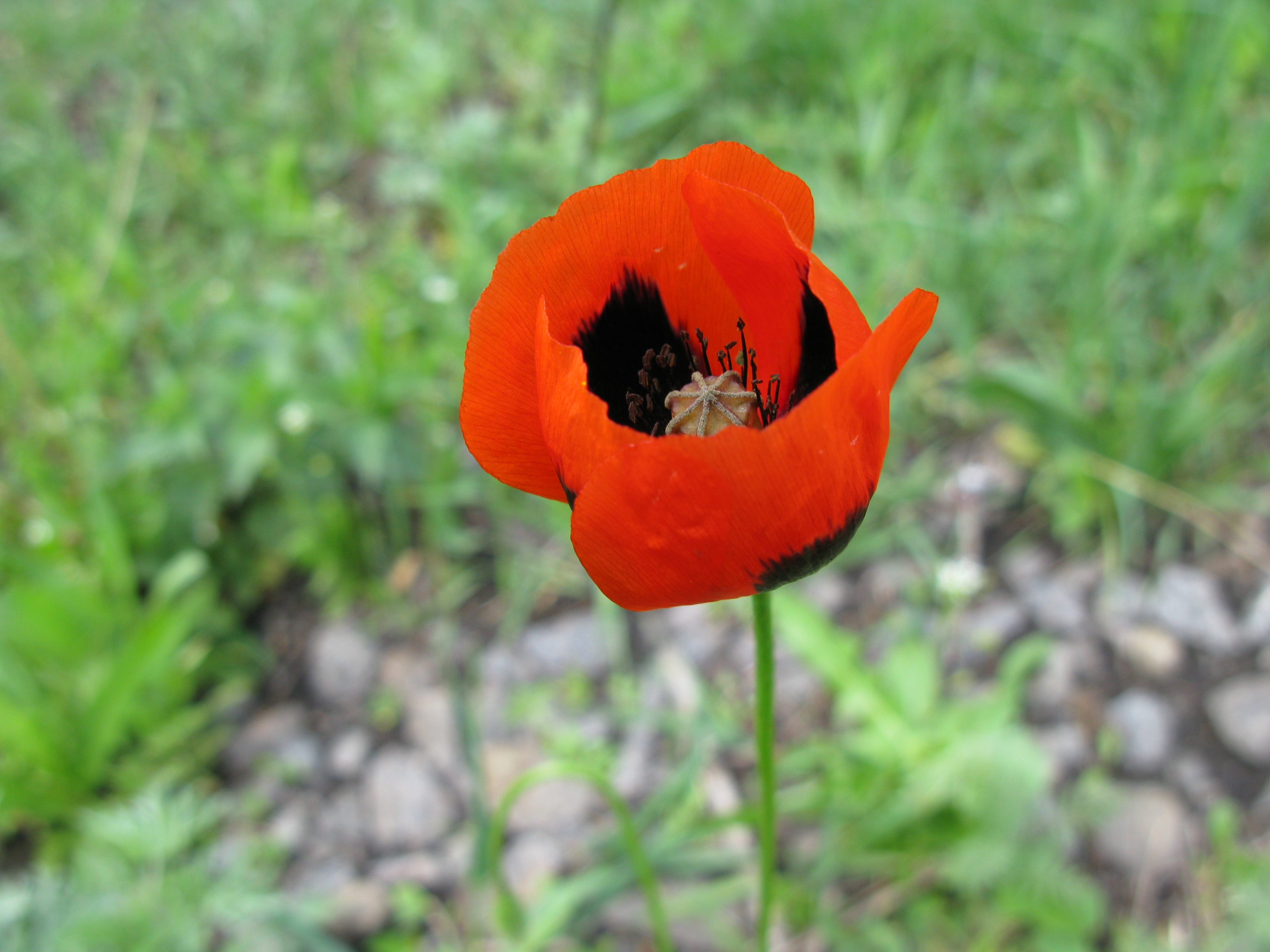 Papaveraceae